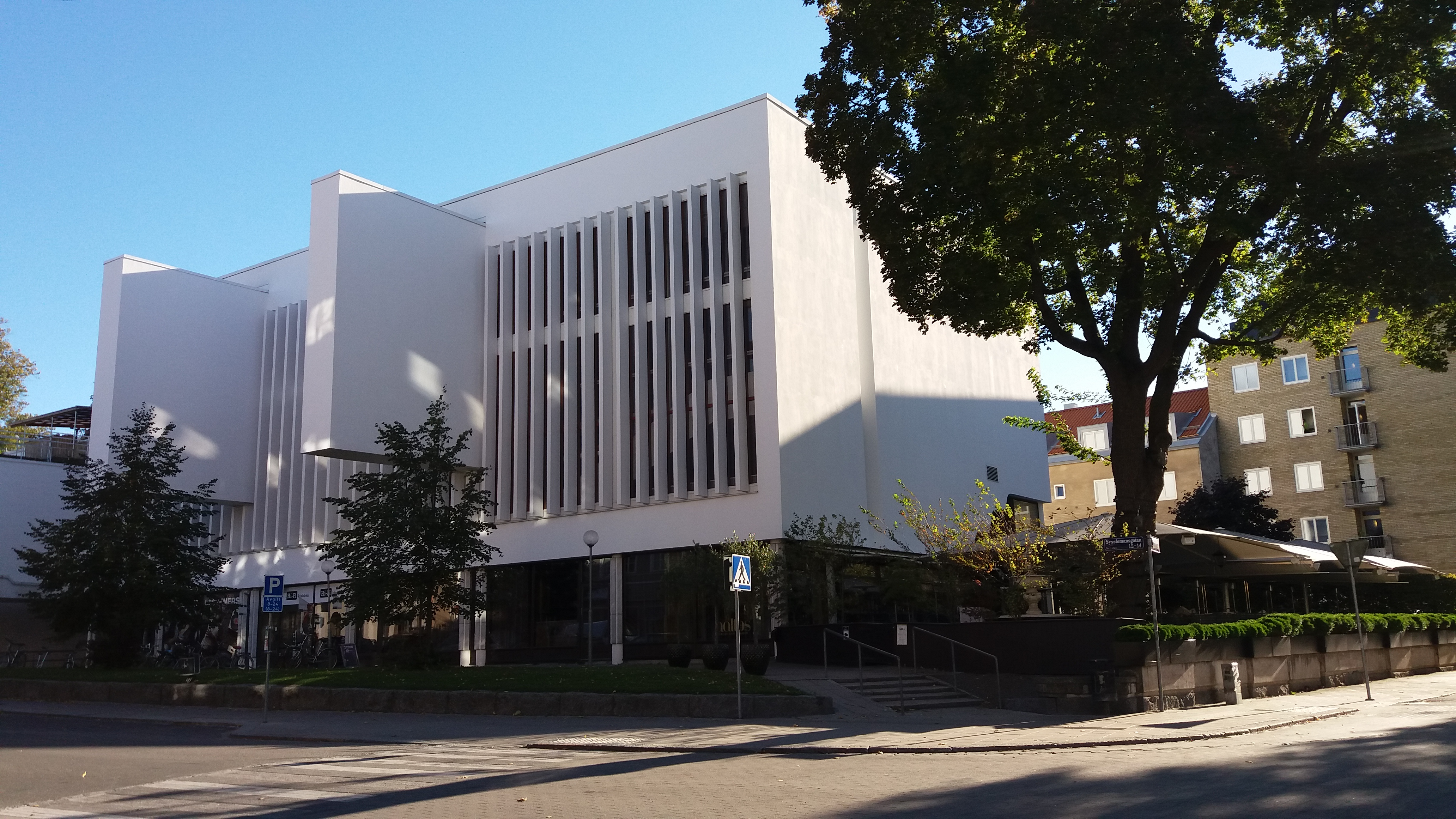 Västmanlands-Dala nation in Uppsala.